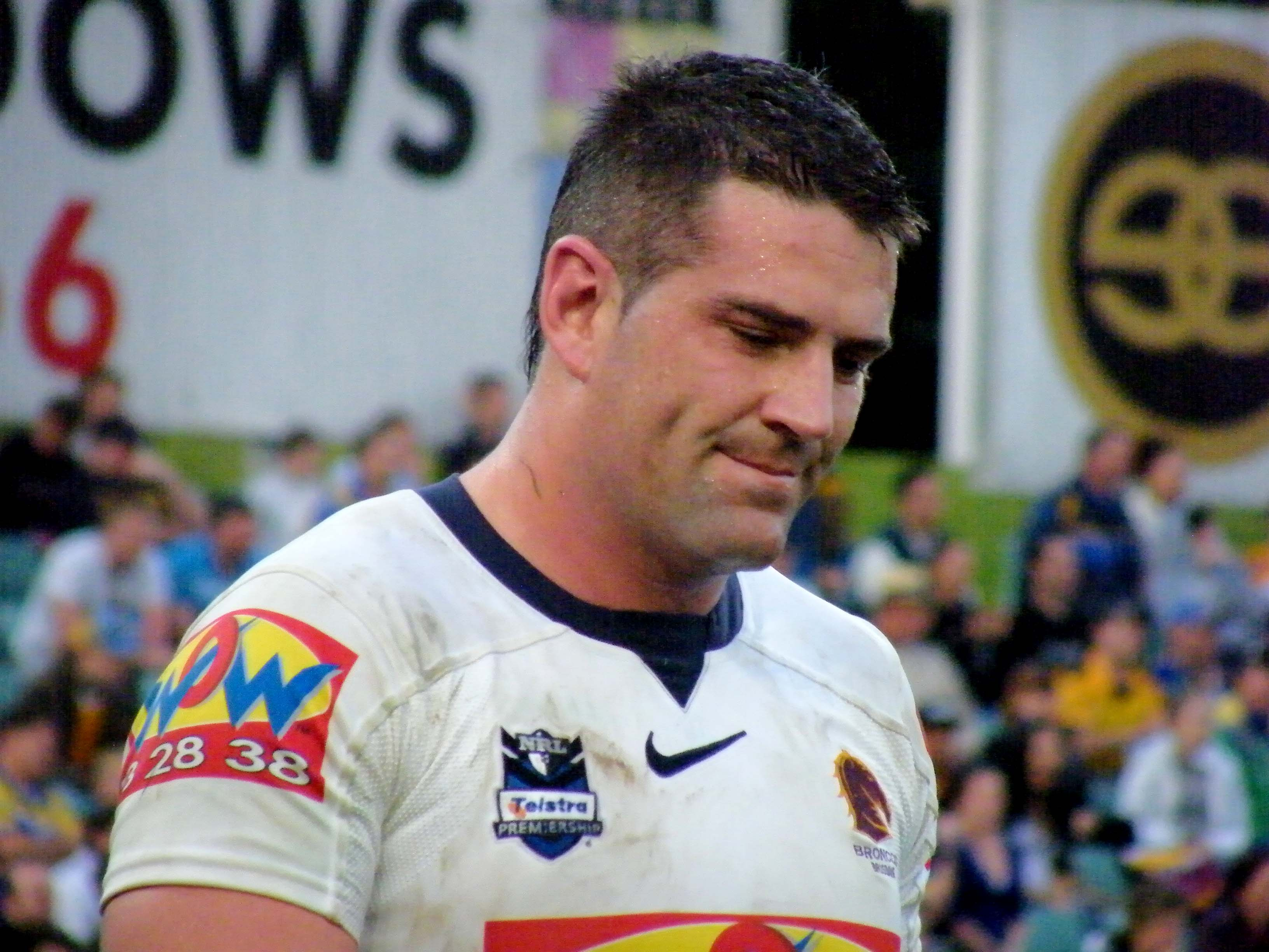 Joel Clinton of the Brisbane Bronco's RLFC